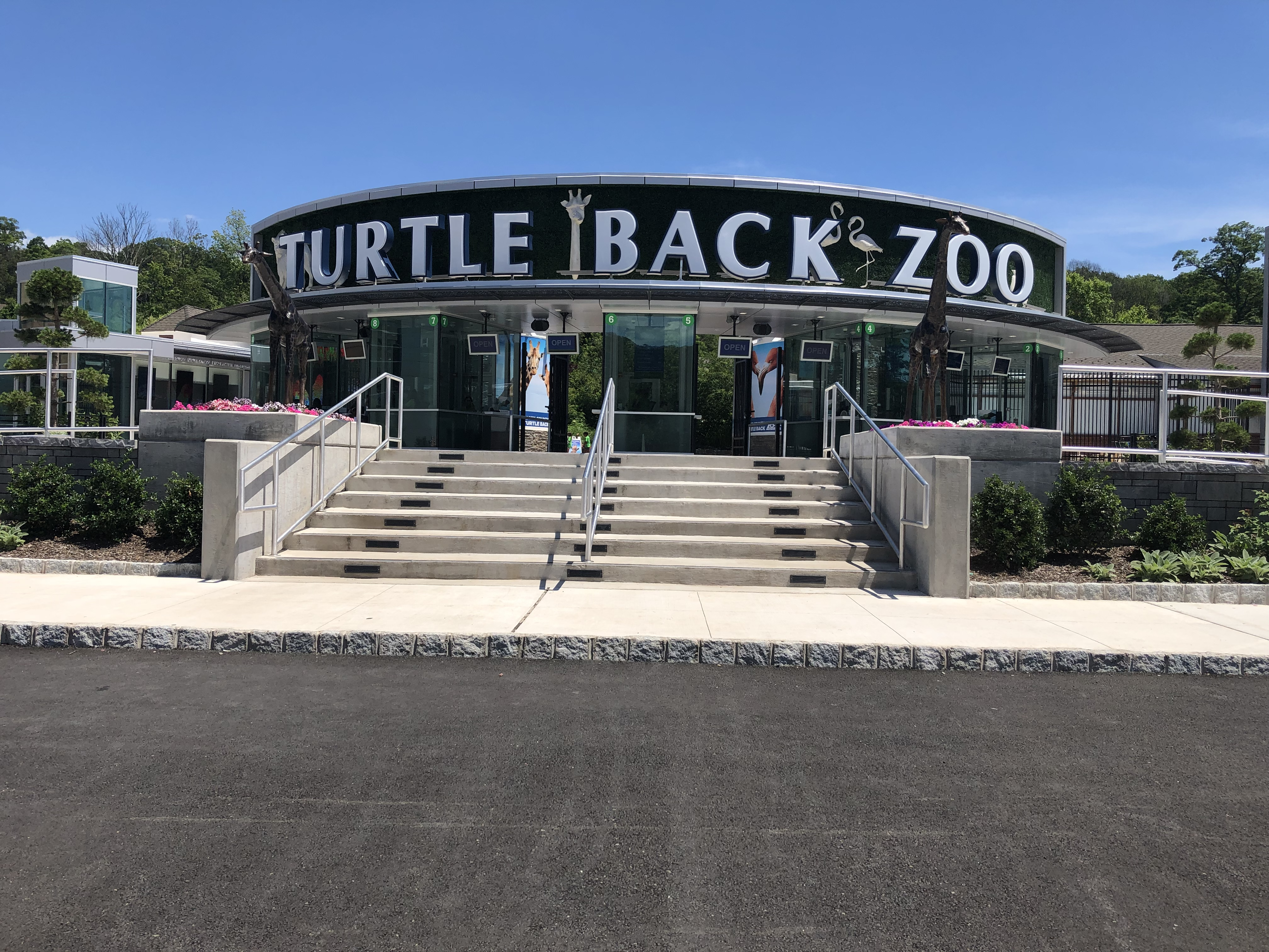 A view of the Turtle Back Zoo in West Orange, New Jersey’s new entrance as seen in June 2019.